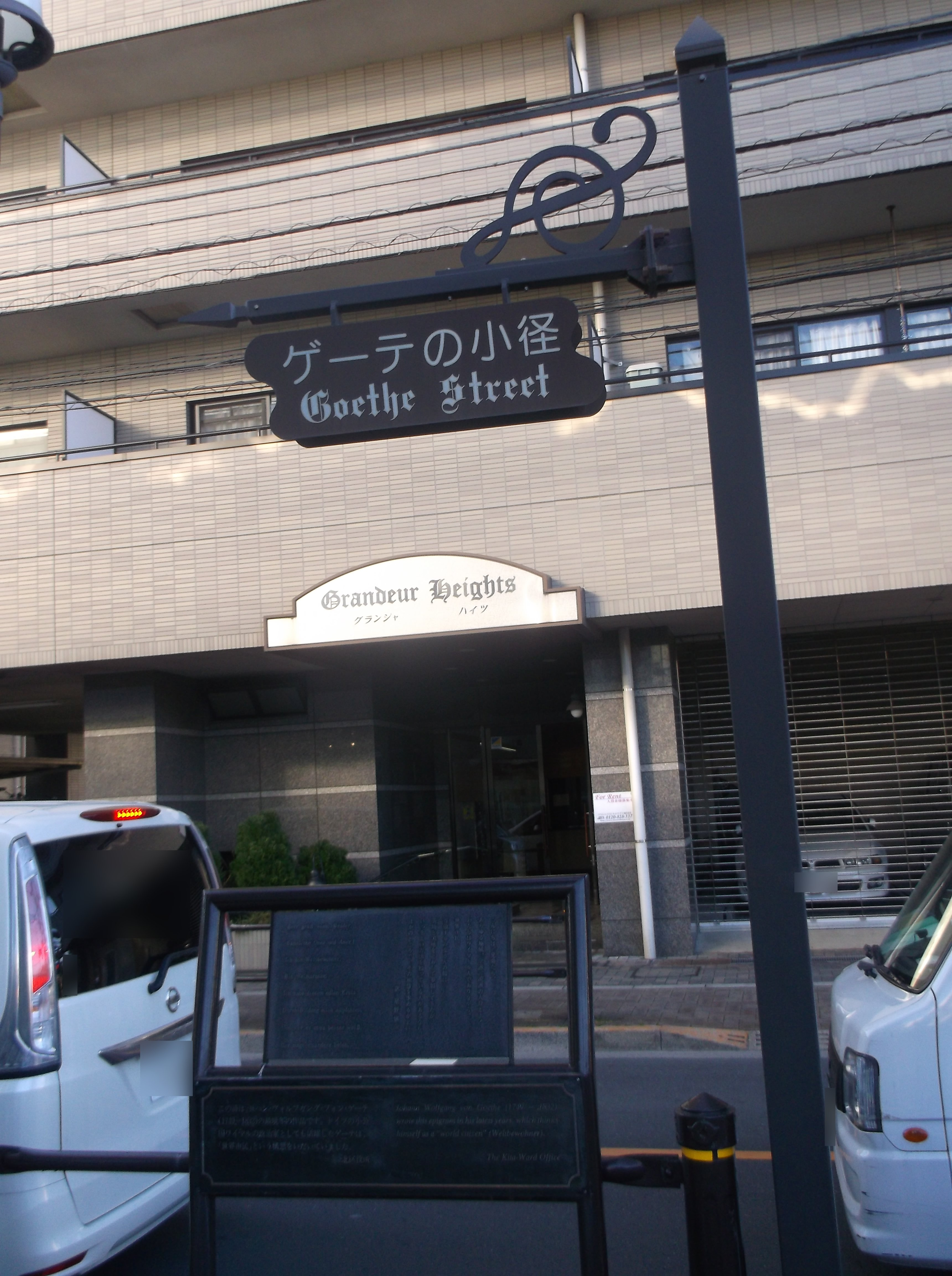 A photo of "Goethe street",Nishigahara,Kita-ku,Tokyo,Japan.